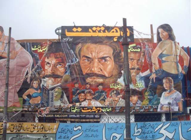 Bigger and Better Billboard of Dehshut (the movie). (C) 2004 by Ali Imran. Picture taken on Friday, October 1, 2004.